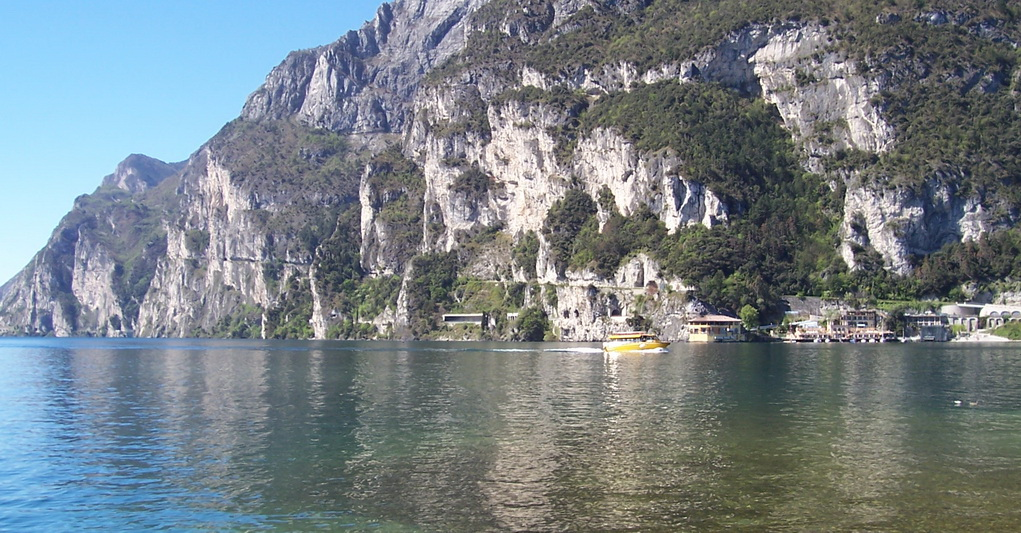 The old Ponale Road from Riva del Garda